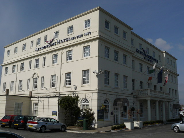 Aerodrome Hotel, Purley way The later addition to the building cannot be seen from this angle.